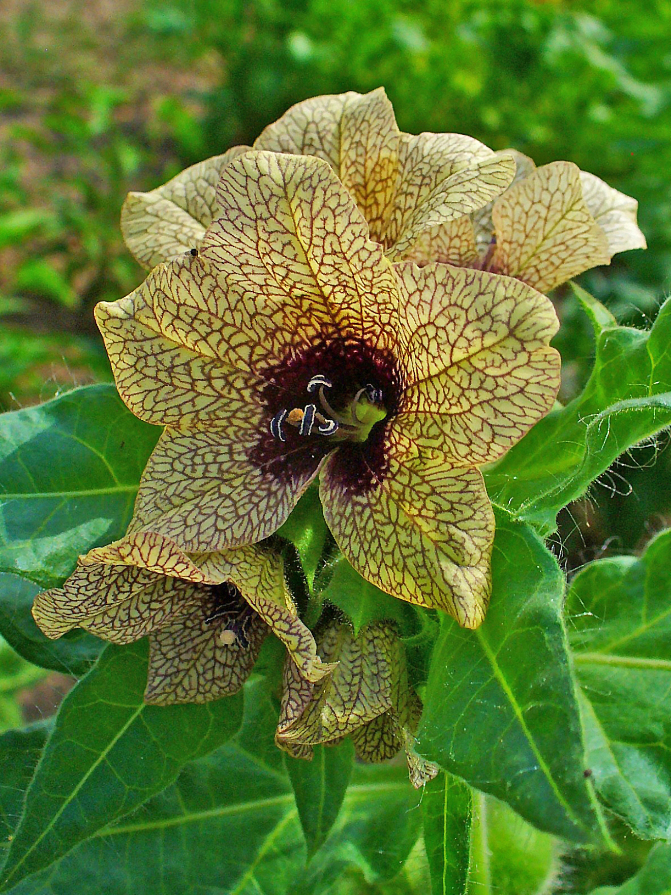 Hyoscyamus niger, Solanaceae, Henbane, Stinking Nightshade, flowers; Botanical Garden KIT, Karlsruhe, Germany. The whole, fresh, blooming plant is used in homeopathy as remedy: Hyoscyamus (Hyos.)